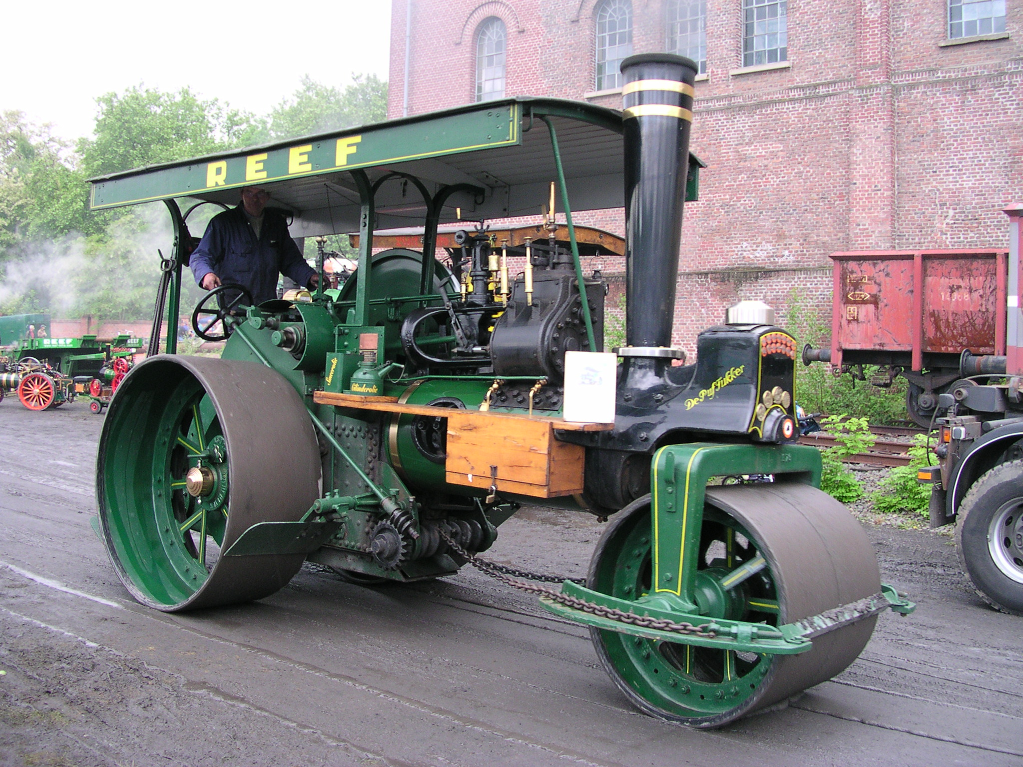 5th steam festival in Bochum, Germany 2007. Sentinel model